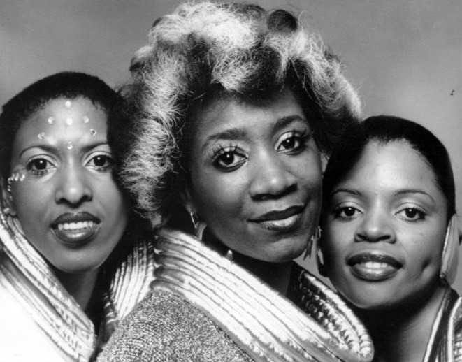 Promotional photo of singing group Labelle. From left: Nona Hendryx, Patti LaBelle, Sarah Dash.